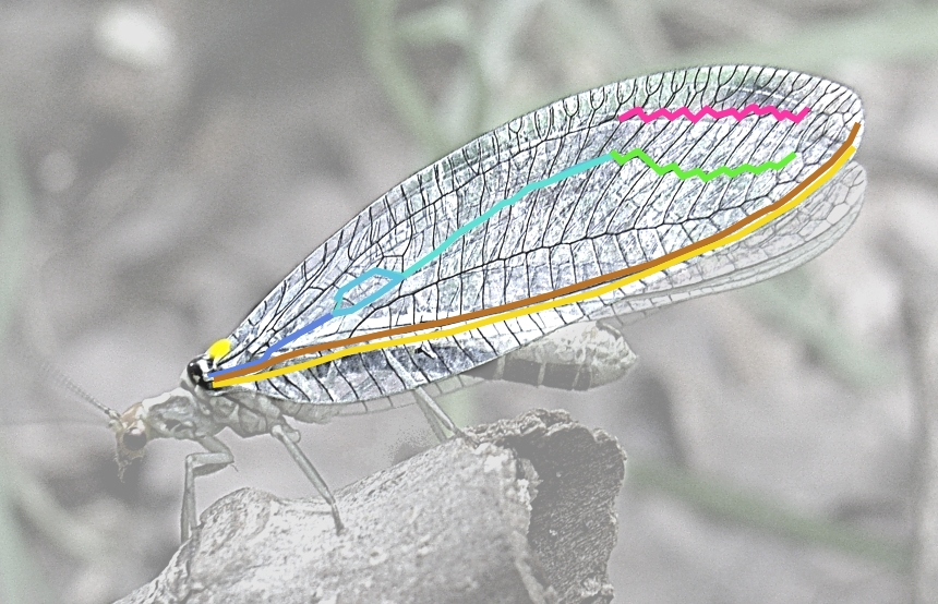 Venation of wing of Nothochrysa fulviceps partly coloured light brown:Subcosta,dark brown:Radius dark blue:Media Posterior MP; blue: MP1 and MP2; light blue: Pseudomedia green:inner zig-zag, pink outer zig-zag yellow: yugal lobe